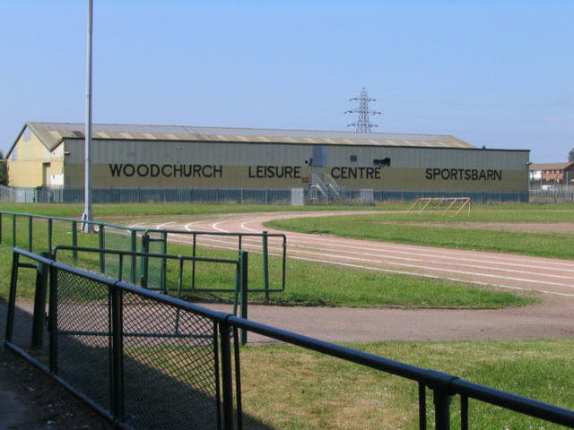 Woodchurch Sportsbarn and Track